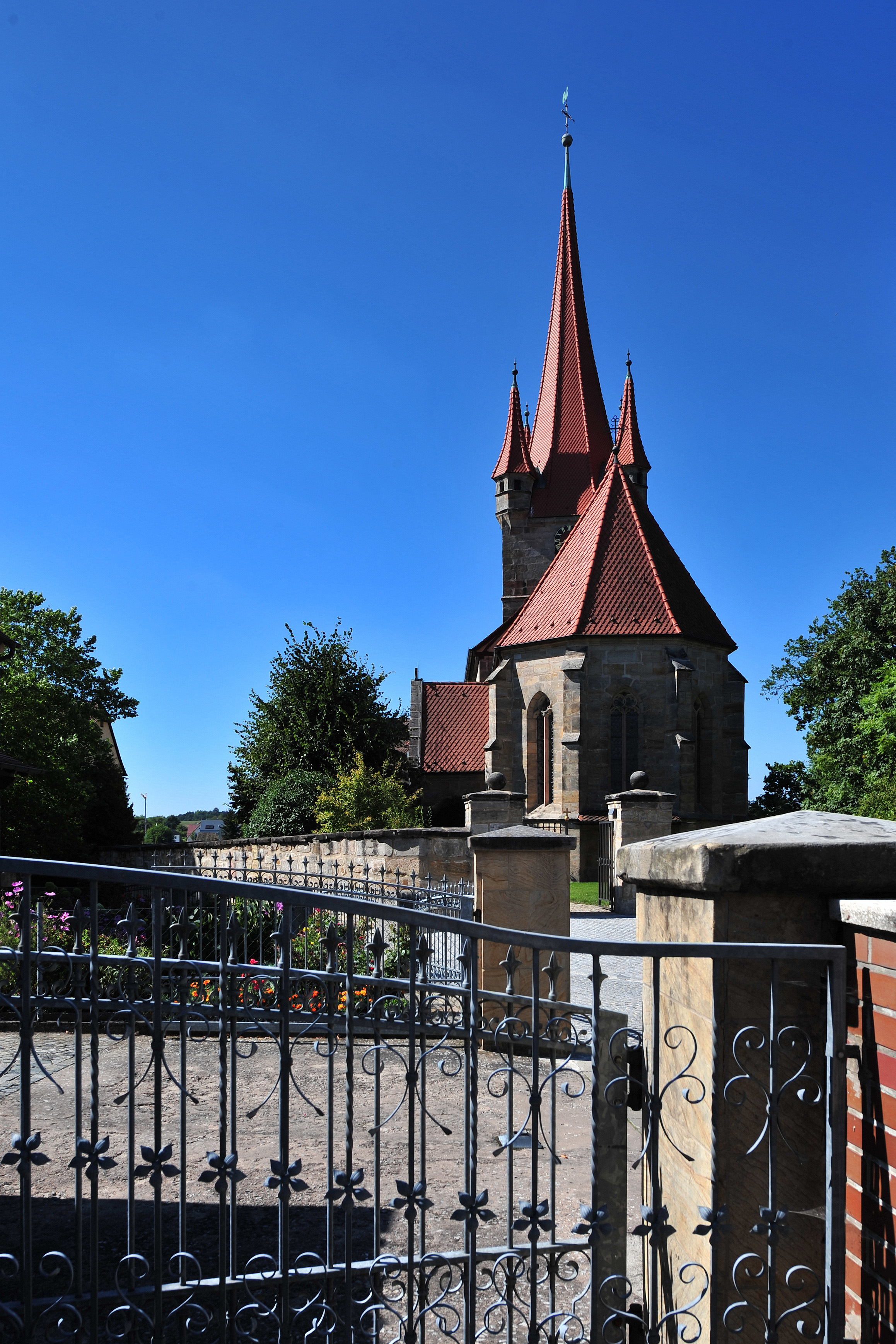 Sankt Margaretha (Heroldsberg) This is a photograph of an architectural monument.